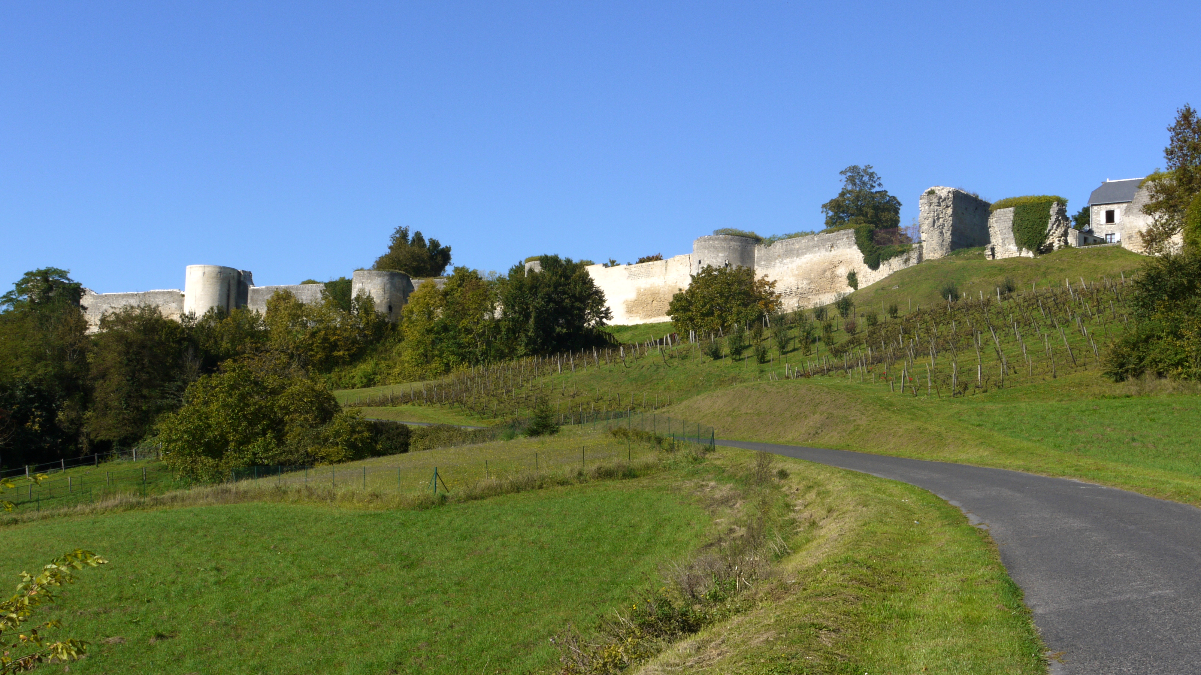 Ramparts of Coucy-le-Château-Auffrique, Aisne, France